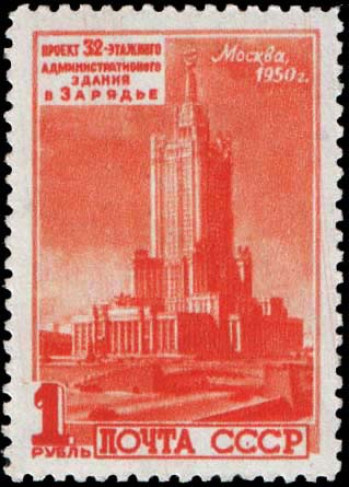 USSR Post stamp 1950